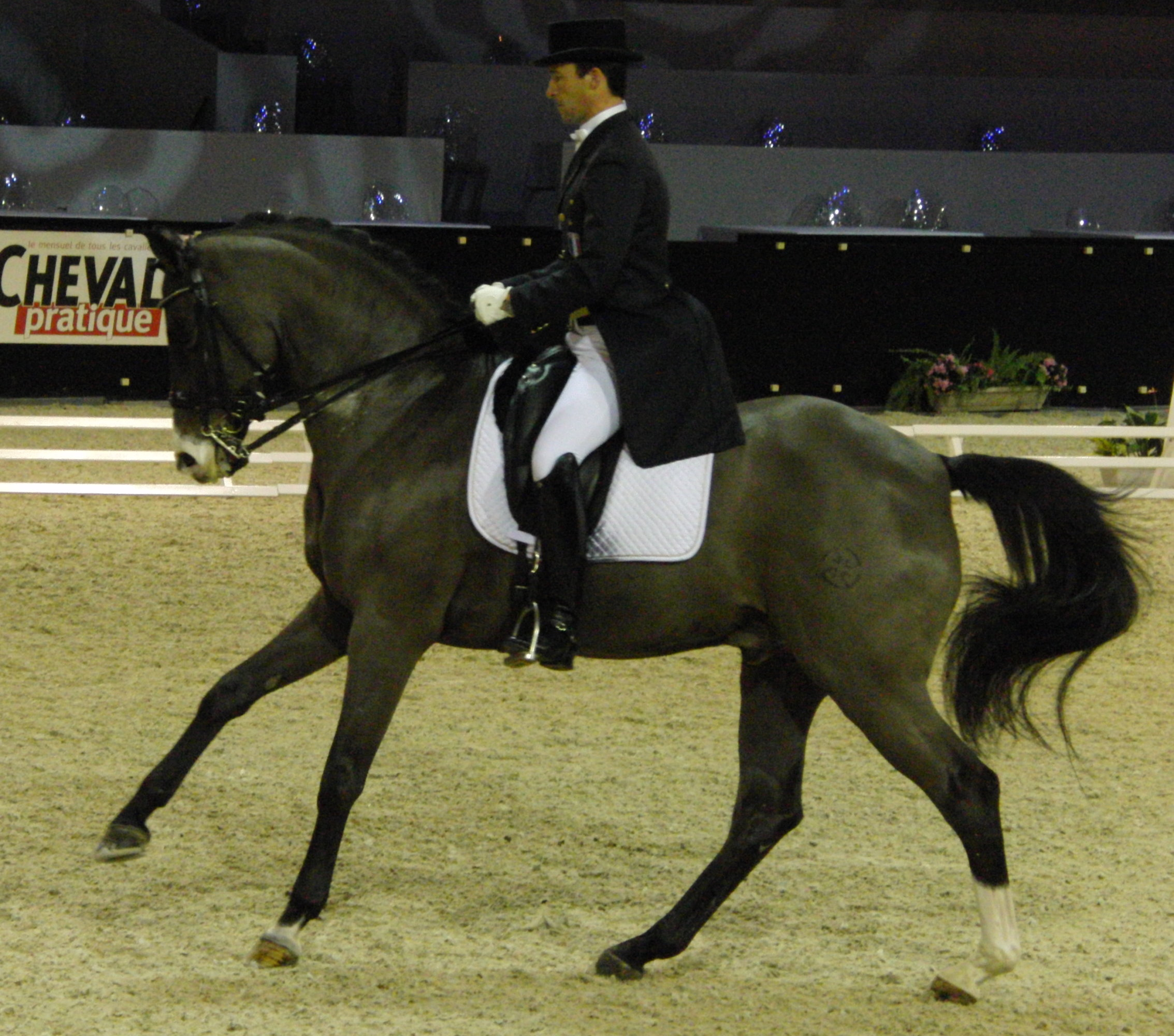 Marc Boblet and Whitni Star, Belgian Warmblood - Paris's Cup Pro Elite de dressage - Salon du cheval de Paris 2009, France